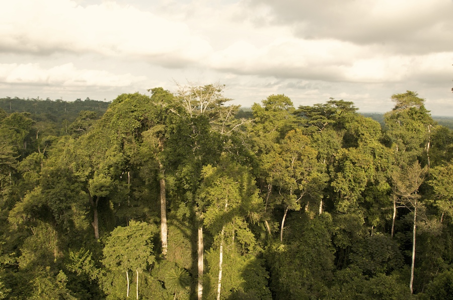 Canopy view in the Kakum National Park, Ghana